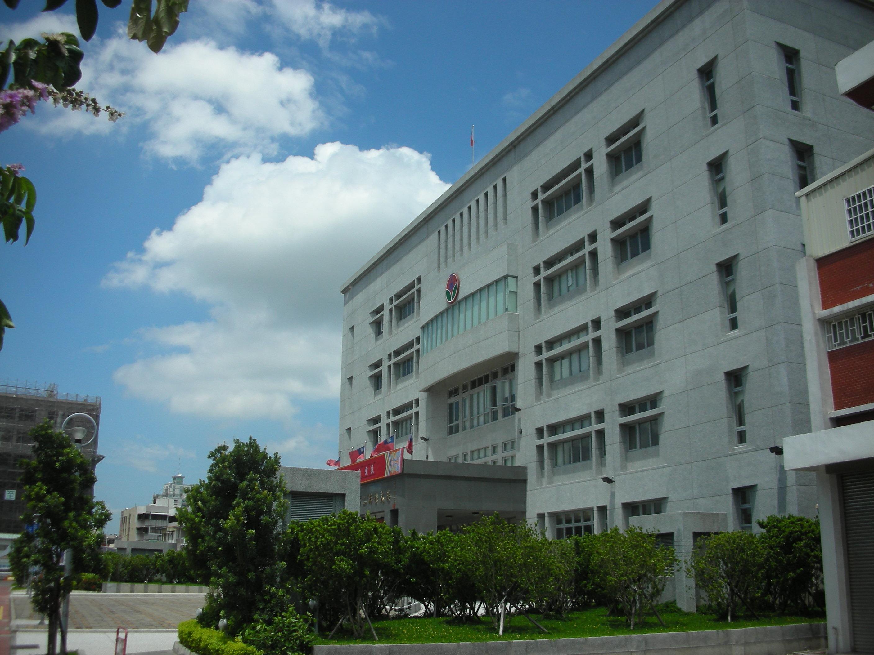 苗栗縣政府 Miaoli County Government